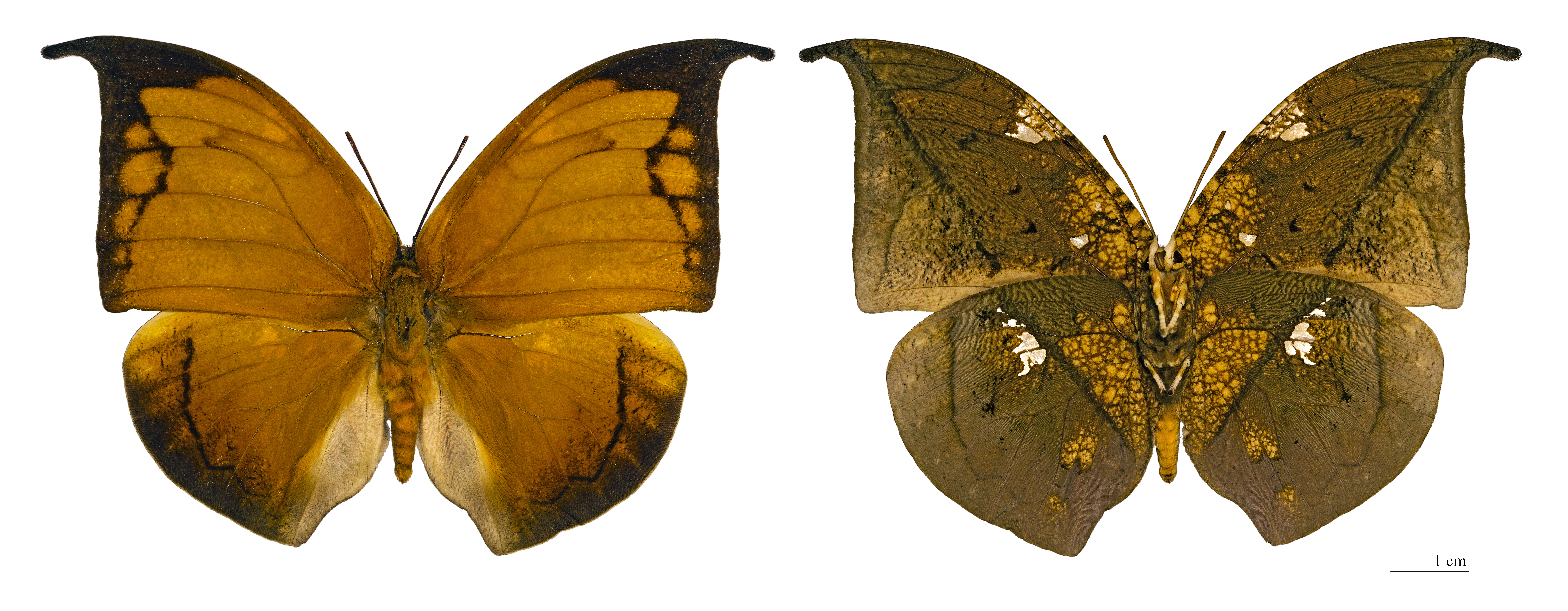 Coenophlebia archidona - Two views of same specimen